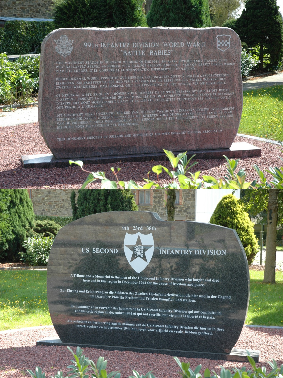 Two photos of memorials in the village Rocherath-Krinkelt, municipality Büllingen, Belgium. They comemorate the 99th Infantry Division (upper picture) and the 2nd Infantry Division (lower picture) of the United States Army who both fought here during the Battle of the Bulge in winter 1944/45.